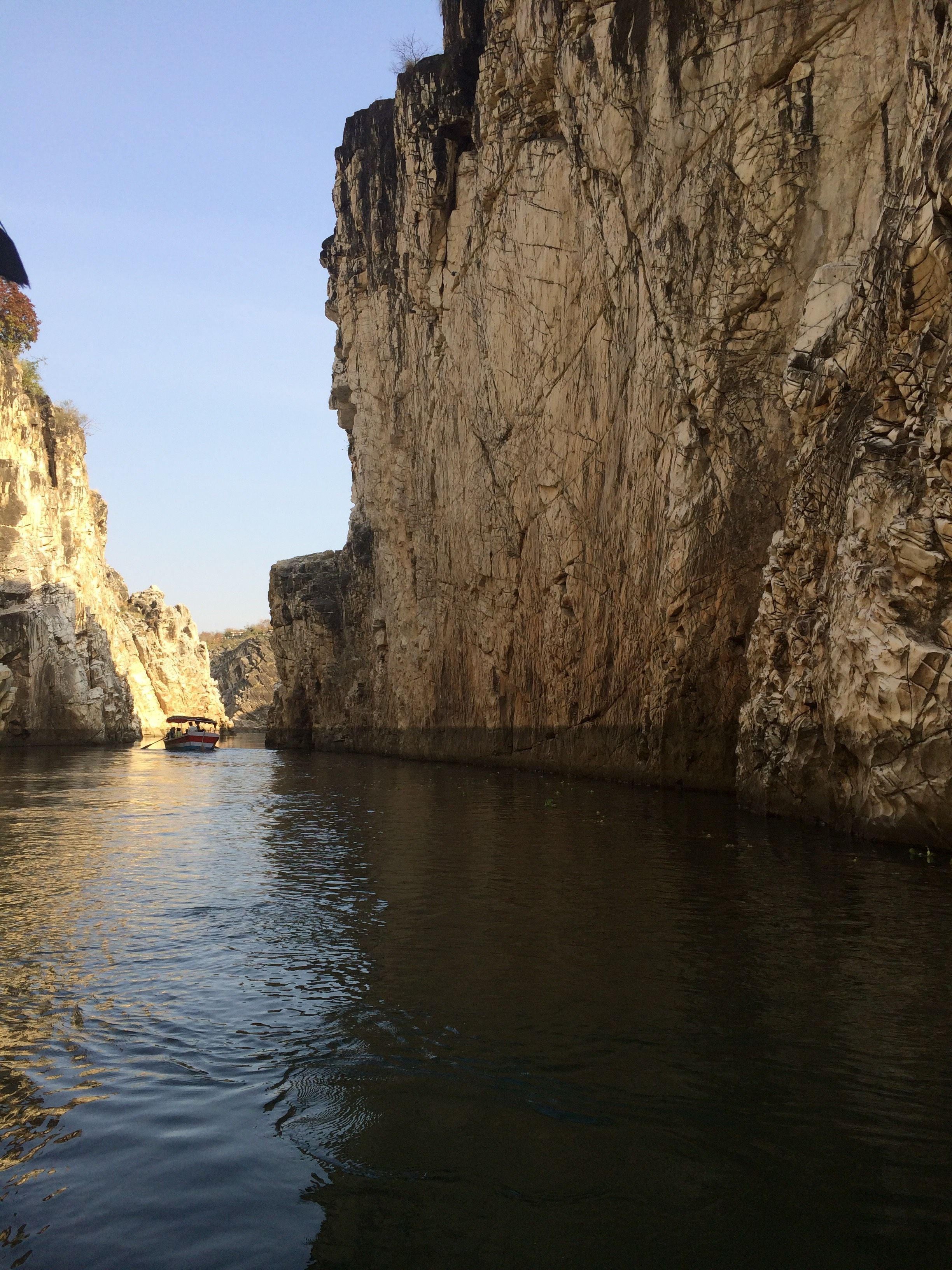 Narmada river in Jabalpur at Bhedaghat